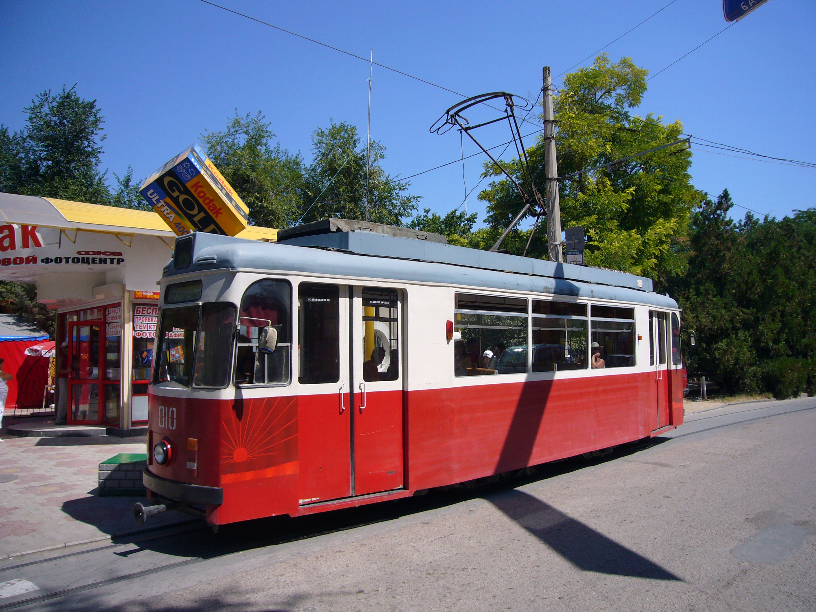 Old tram (type Gotha) in Eupatoria, Crimea, Ukraine